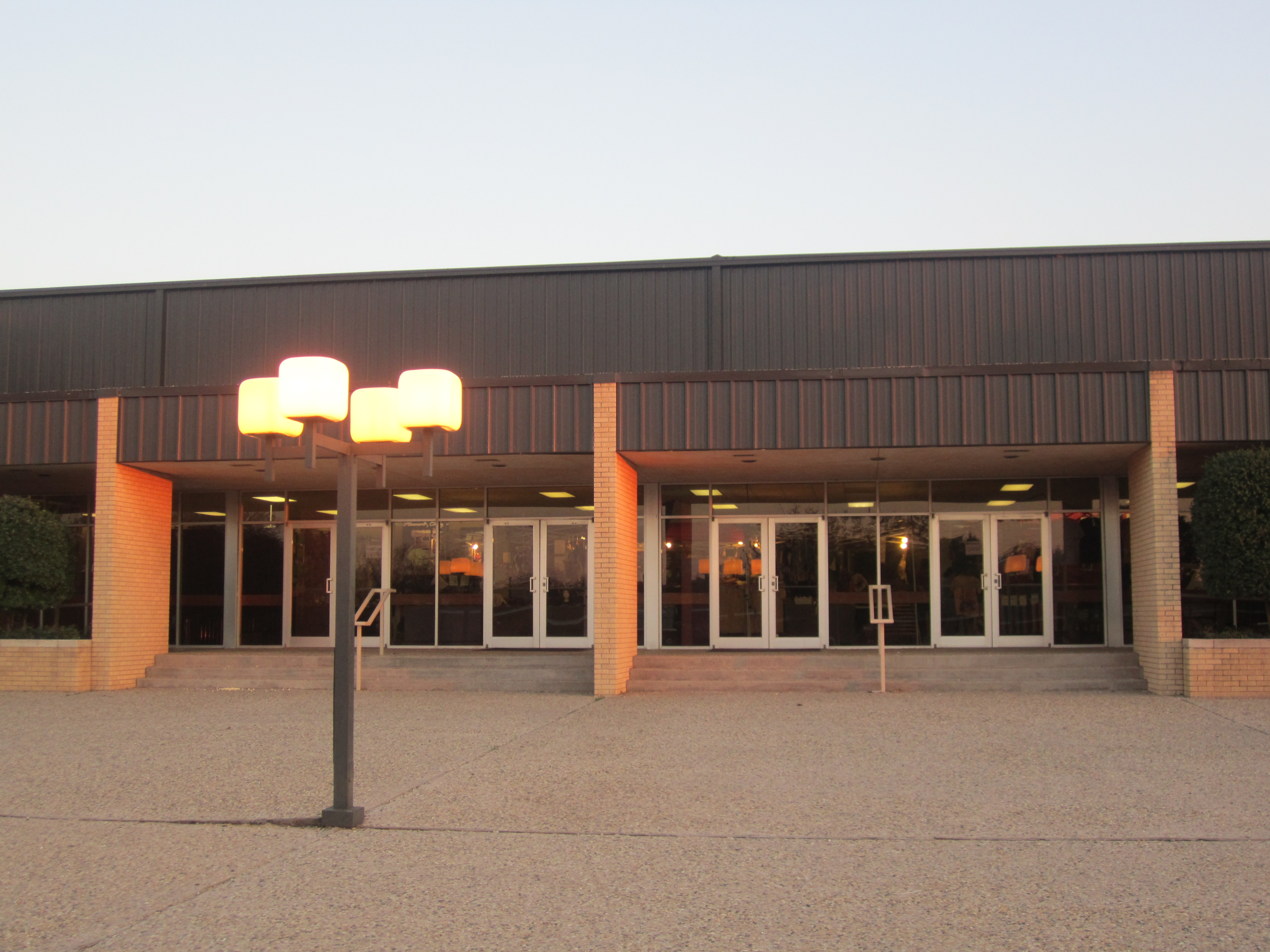 I took photo in Big Spring, TX, with Canon camera.